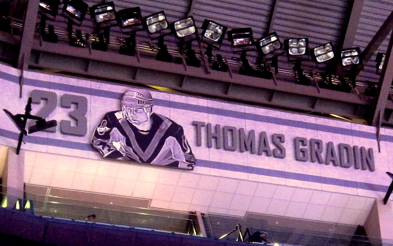 Former Vancouver Canucks forward Thomas Gradin's Ring of Honour plaque in Rogers Arena.